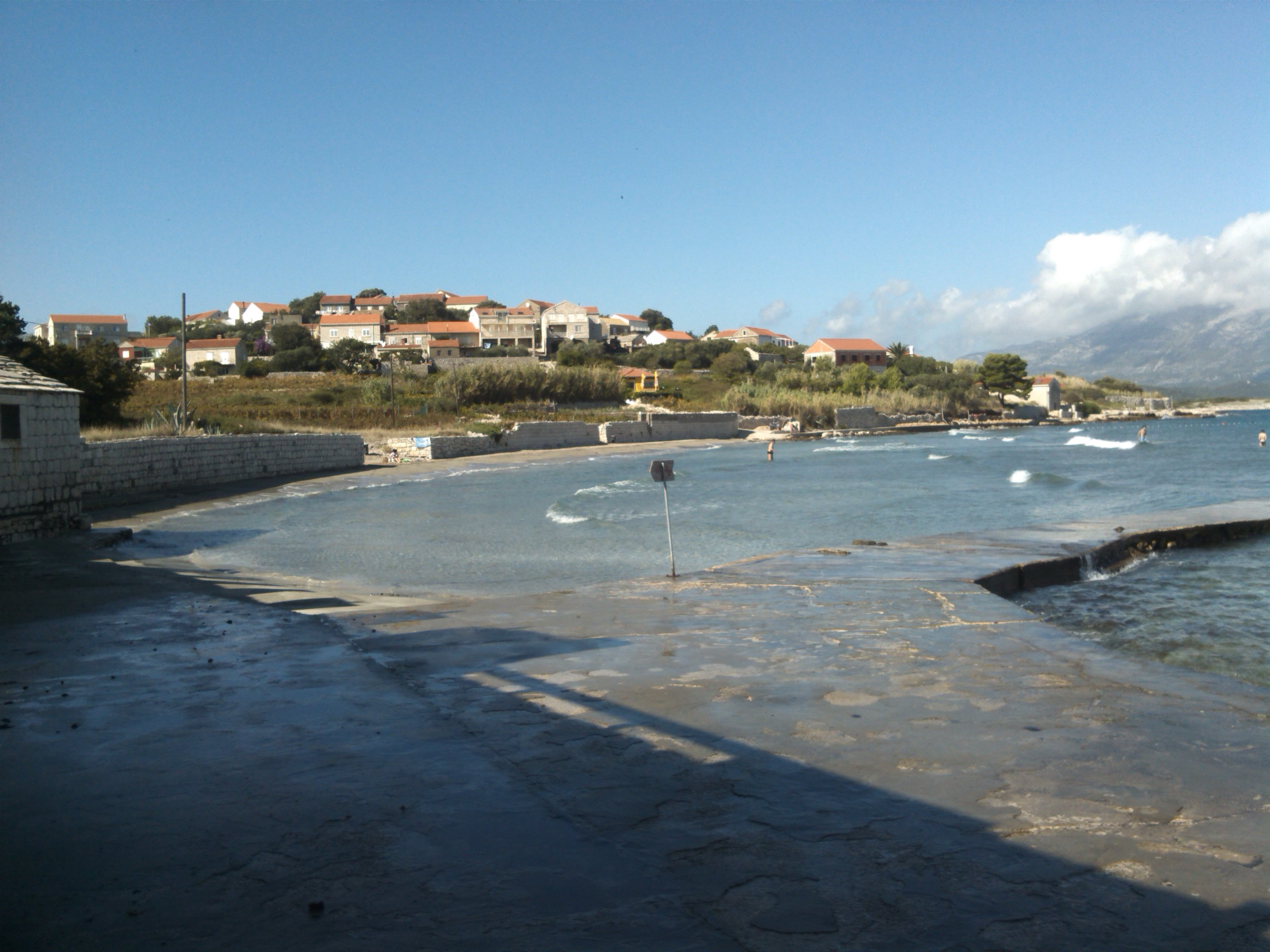 beach "Bilin žal" in Lumbarda